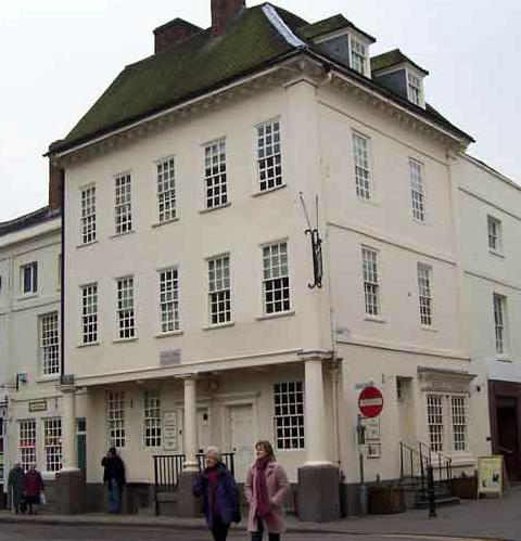 Market Square, at the corner of Breadmarket Street and Market Street, Lichfield, Staffordshire, England, United Kingdom.